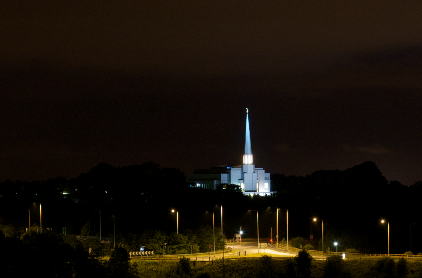 Preston England Temple located in Chorley, Lancashire, United Kingdom.